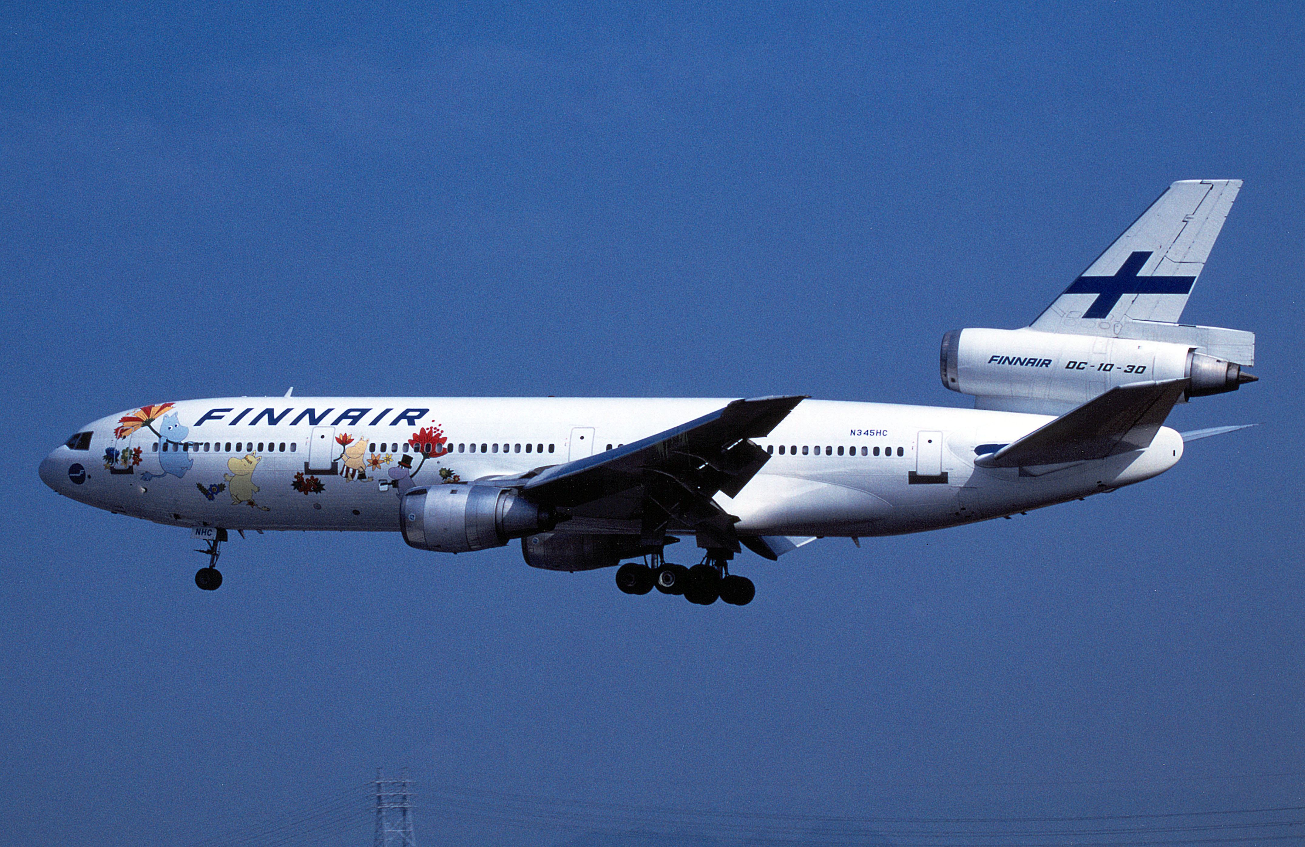 McDonnell Douglas DC-10-30ER aircraft (N345HC) in Moomin livery